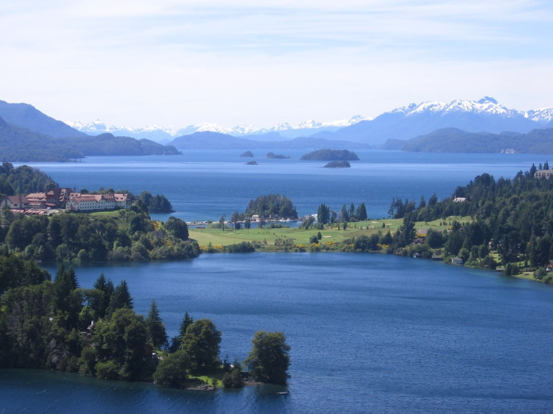 Bariloche, Patagonia (Argentina).